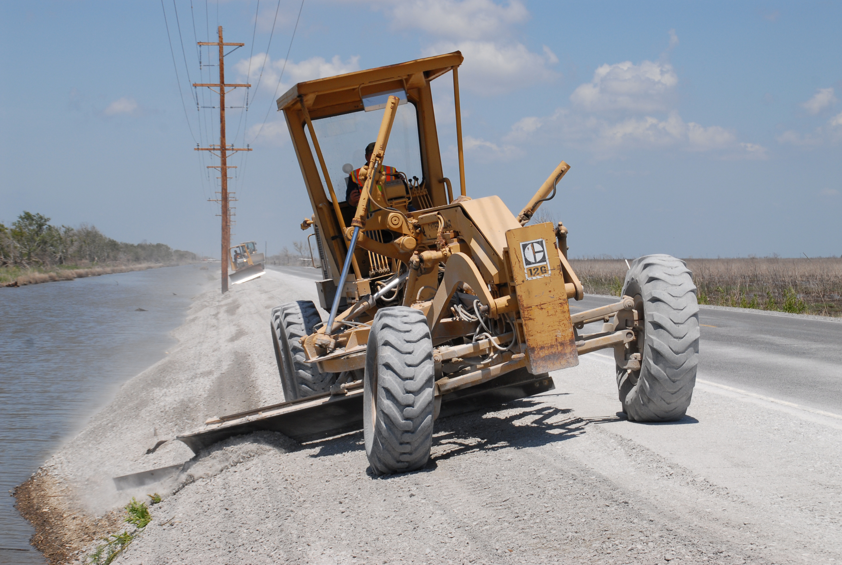 Cameron, LA, 5-19-06 -- A Motor Grader repairs a section of Hwy 27. States and Counties receive FEMA Public Assistance funds to help pay for these kinds of repairs. FEMA/Marvin Nauman